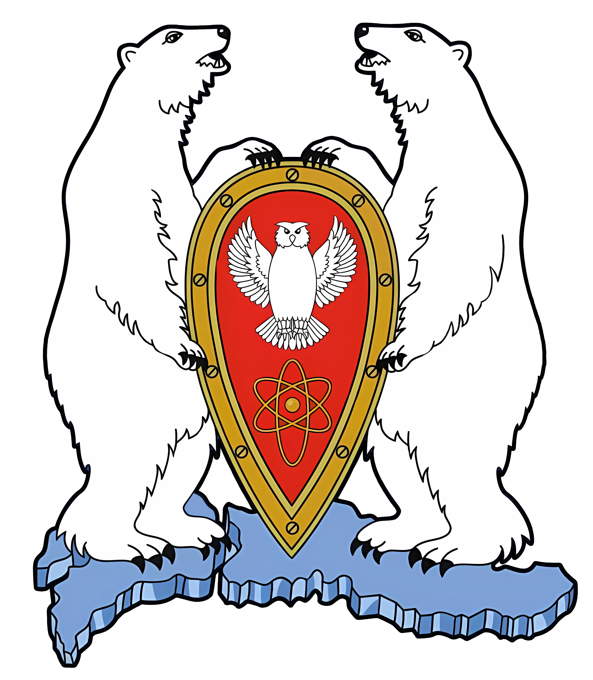 Coat of arms of Novaya Zemlya.